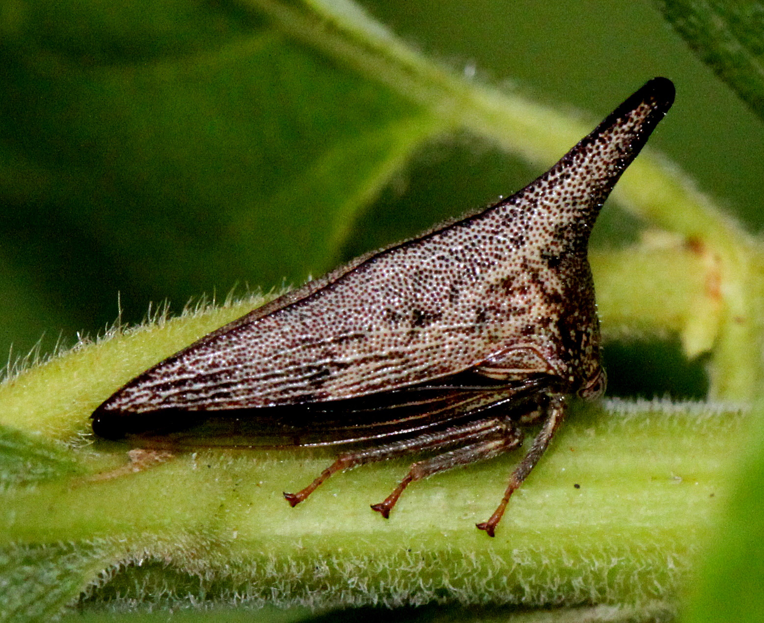 Treehopper - Thelia uhleri, Julie Metz Wetlands, Virginia.